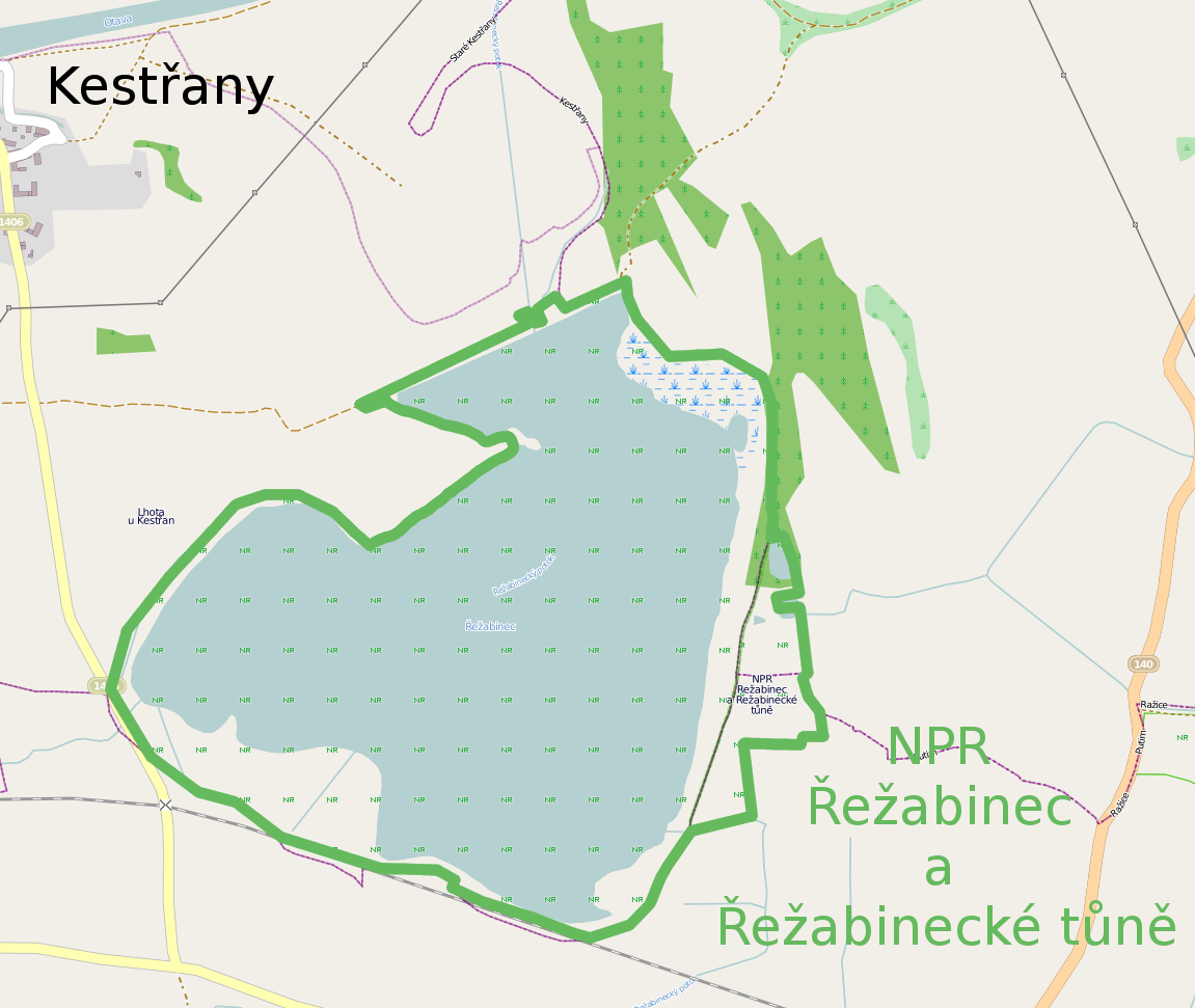 Map of national nature reserve Řežabinec a Řežabinecké tůně